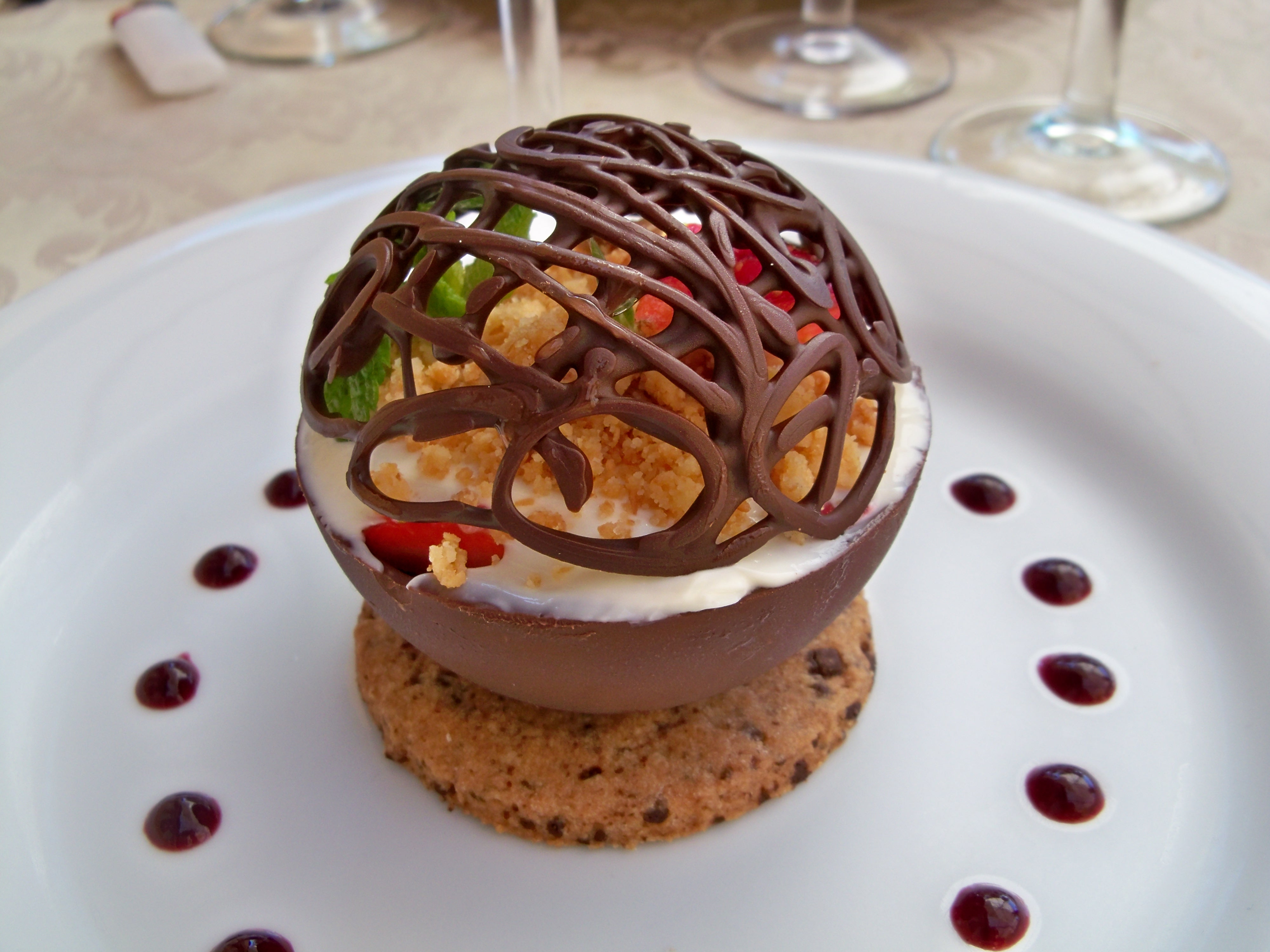 strawberry's crumber, under a chocolate bowl